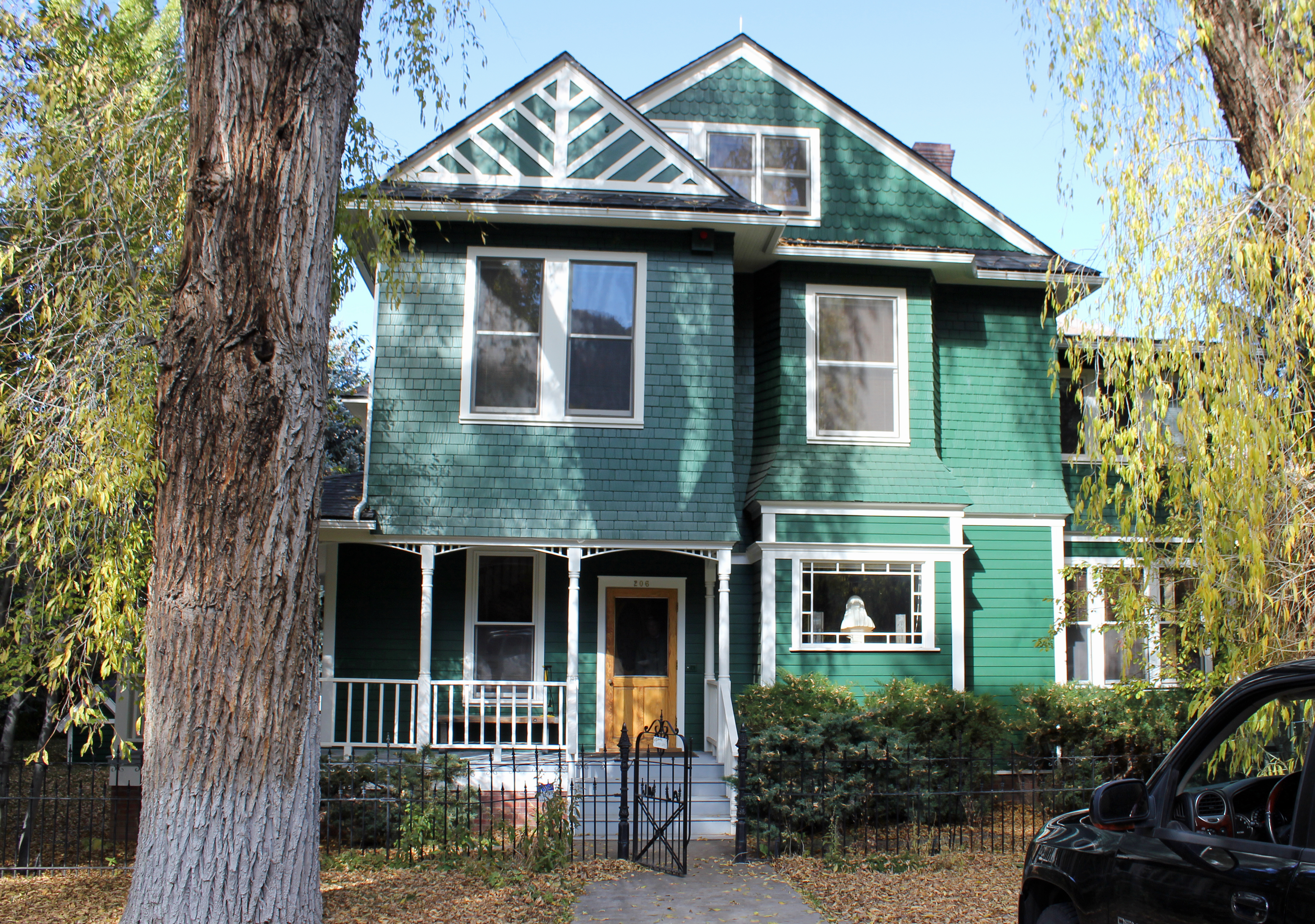 The Newberry House, located at 206 Lake Avenue in Aspen, Colorado.